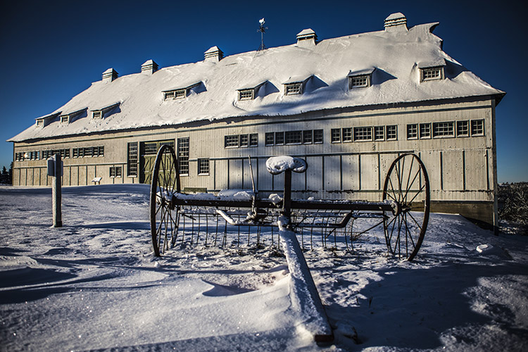 Barn Ministers Island